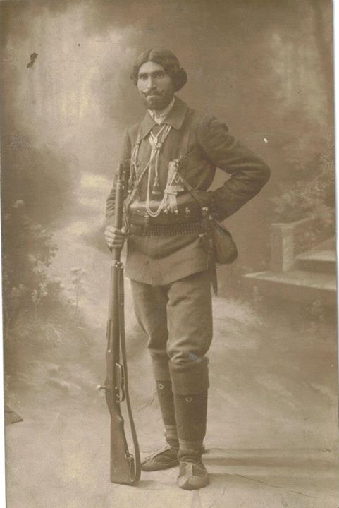 Pancho Mihaylov